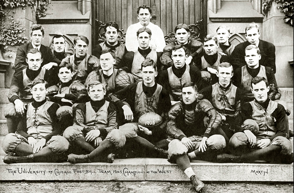 This photograph is of the 1905 University of Chicago National Championship football team.